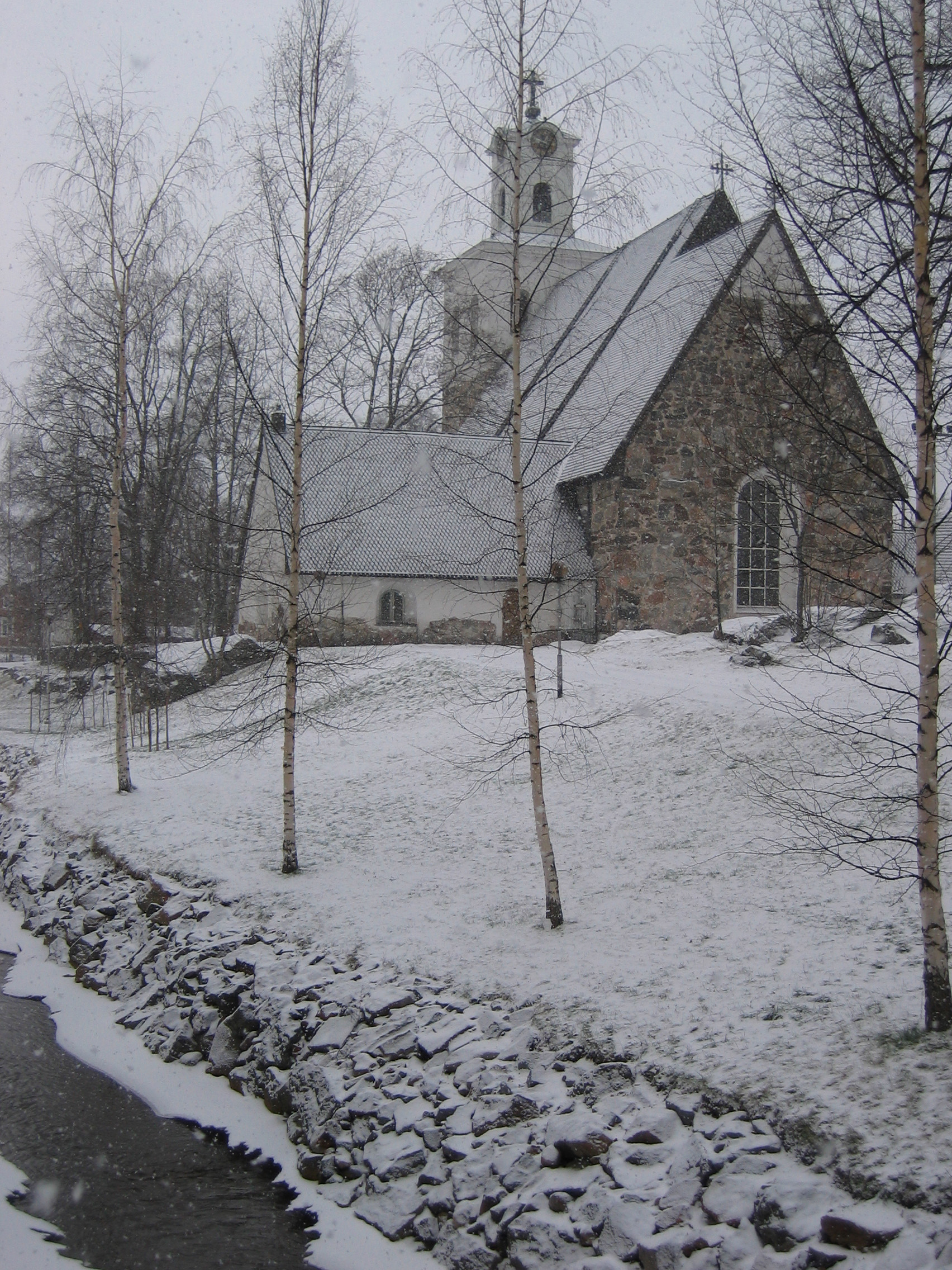 The Church of the Holy Cross in Rauma